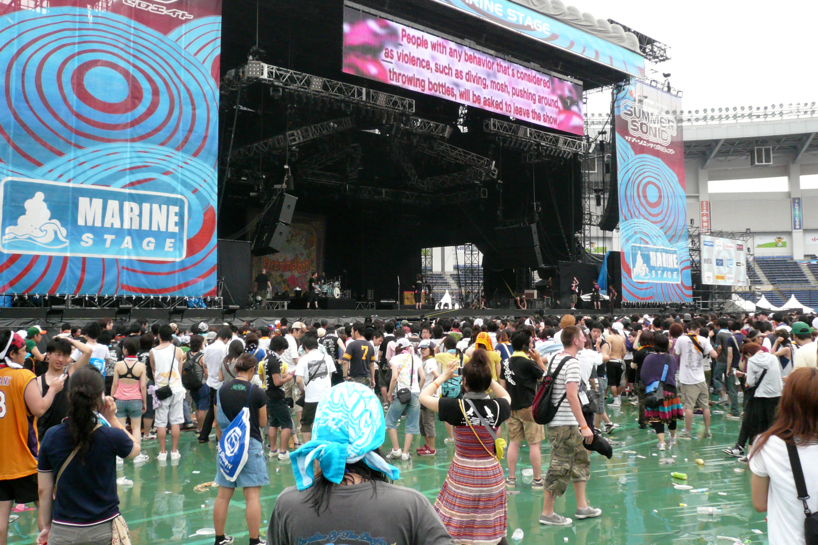 The Marine Stage at the Summer Sonic Festival in Japan.